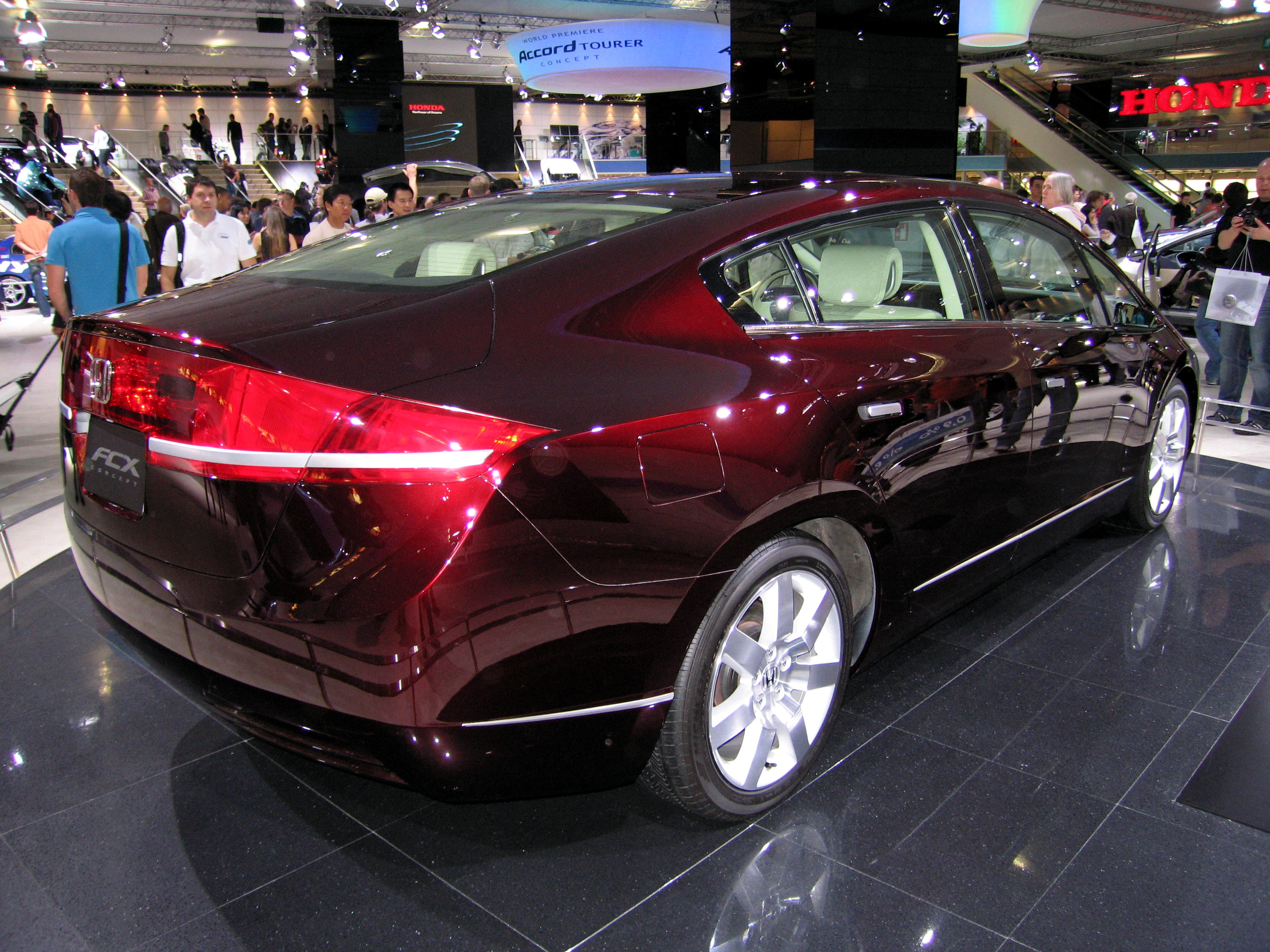 Honda FCX (2006) at the IAA 2007